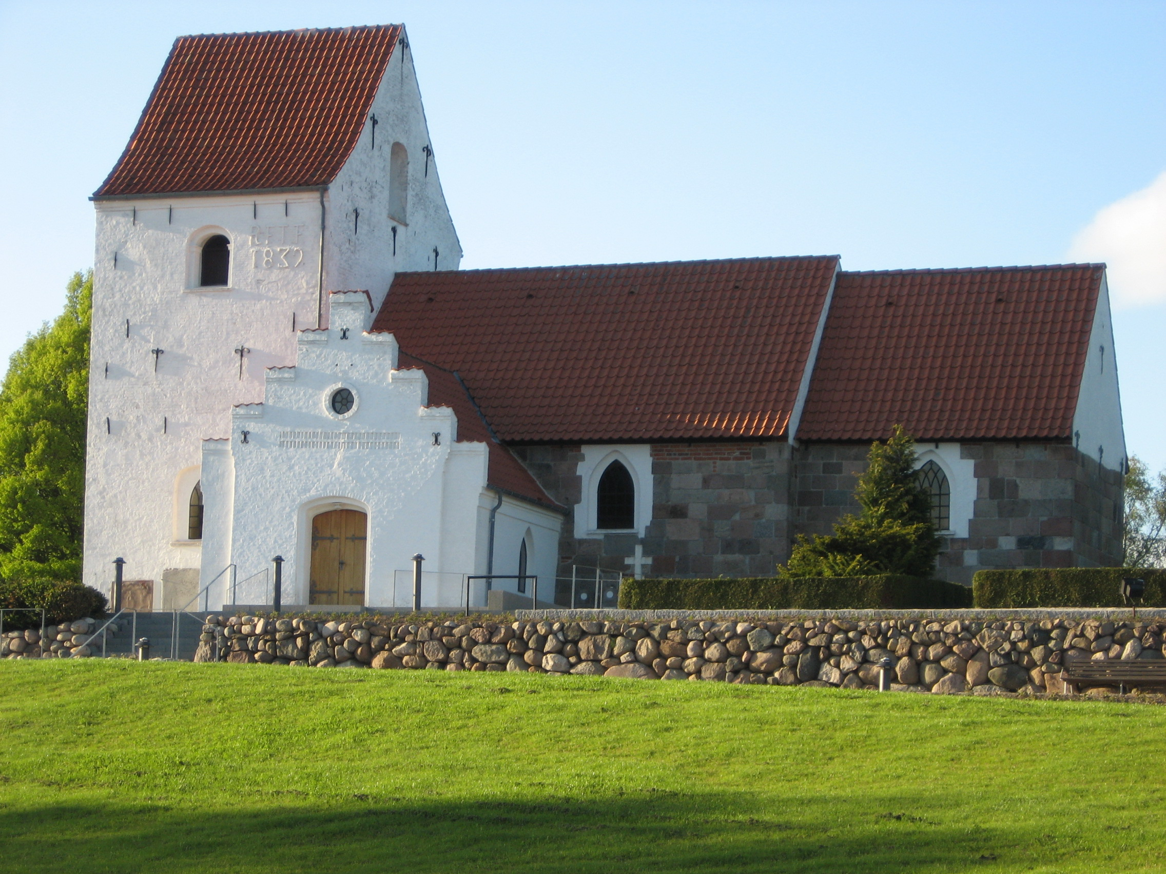 Hasle Kirke in Hasle, Århus, Denmark. Seen from southeast.